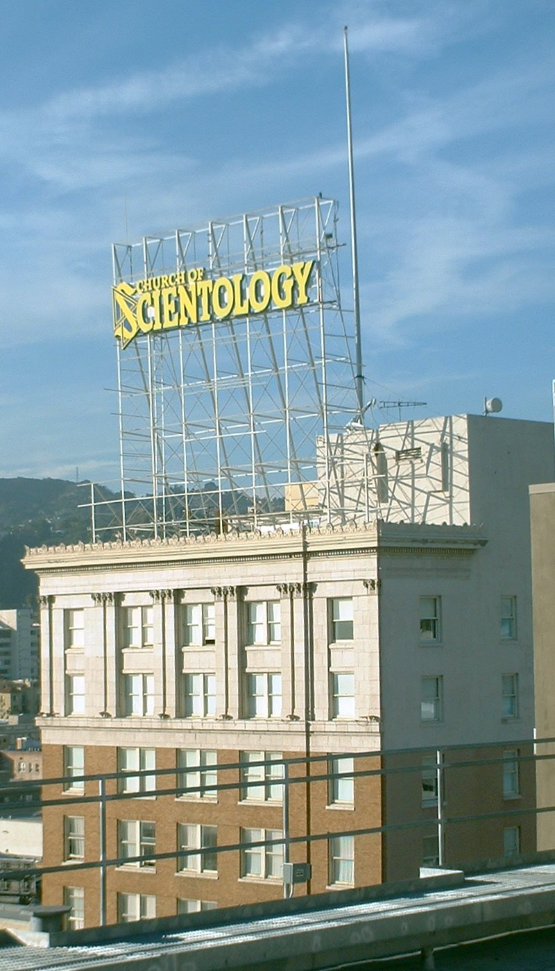 Church of Scientology building at 6331 Hollywood Boulevard, Los Angeles, CA, from across the street.